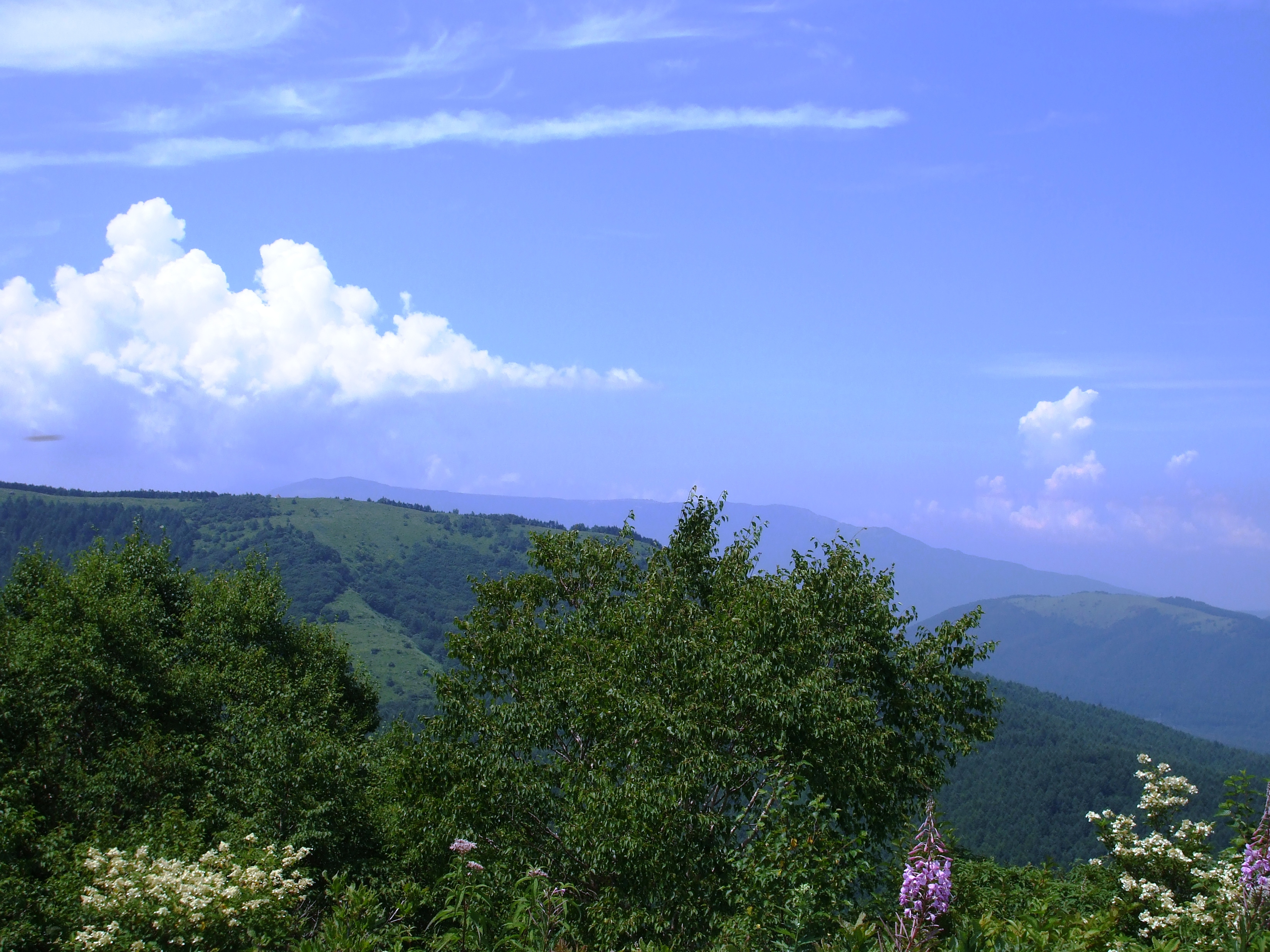 Mount Osasa, from Mount Denjo, Honshu, Japan.